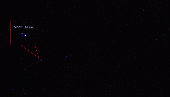 Mizar and Alcor in the Big Dipper